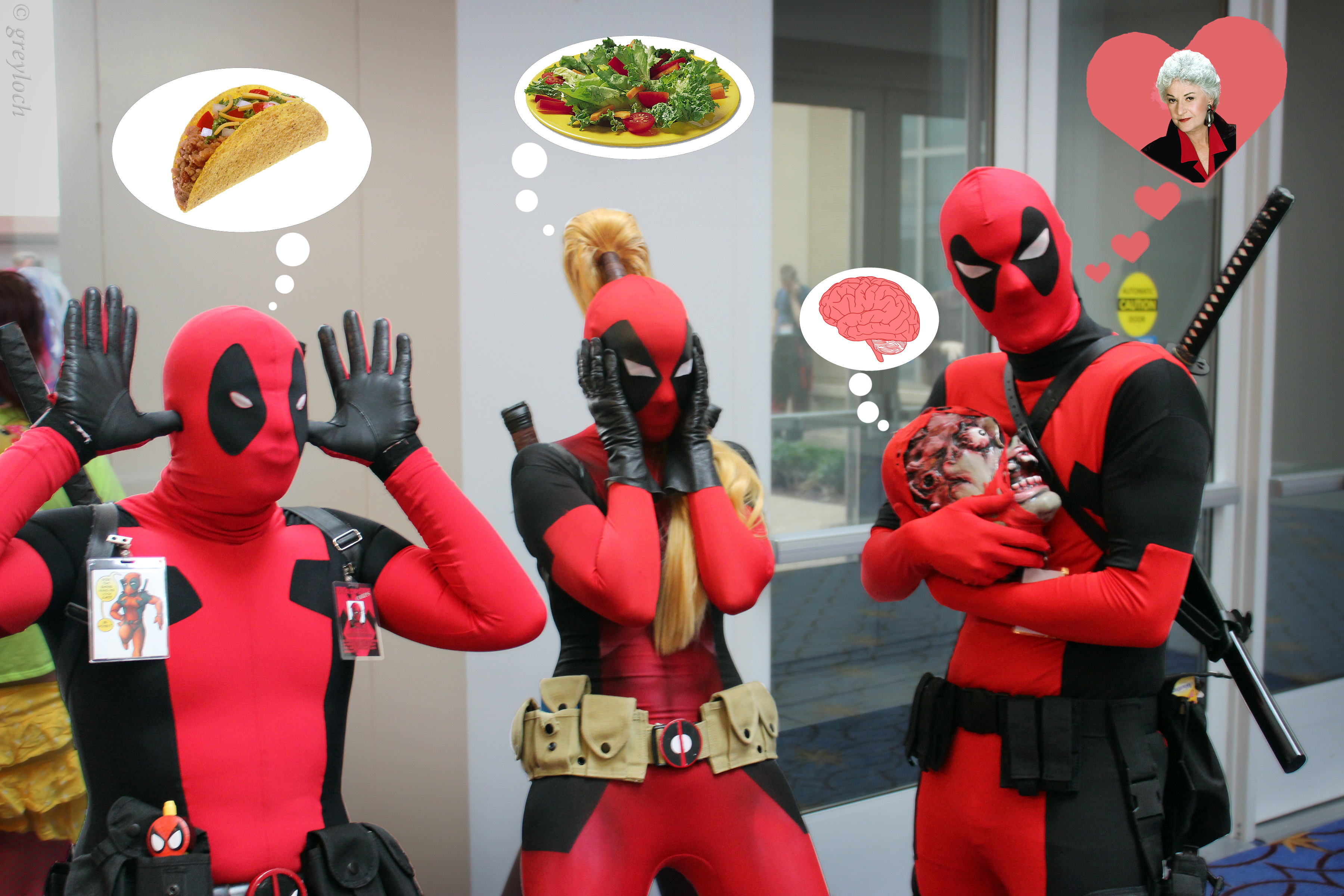 With all of these Deadpools, I couldn't resist adding a bit of PS magic to peek and see what they were thinking about. If you've read any Deadpool comics, their thoughts should not come as any surprise to you. *cackles with laughter* *All images used in the thought balloons are free clip-art I found on the web. Bea Arthur's image is considered public domain and as I'm not trying to make money on this, it's all good. :-) Comments? Please?